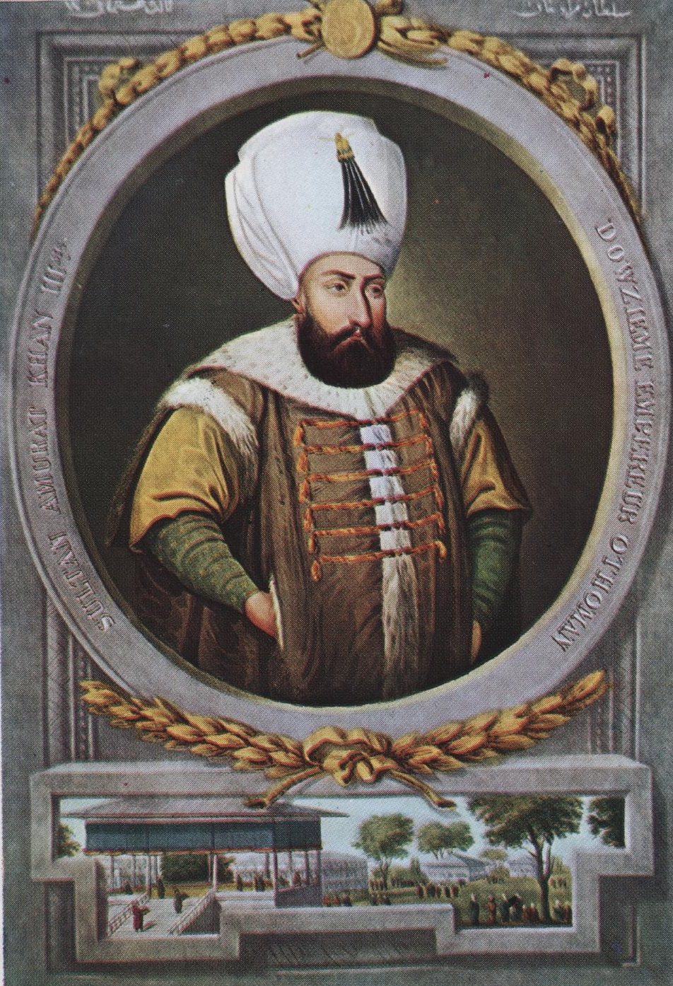 Murat III